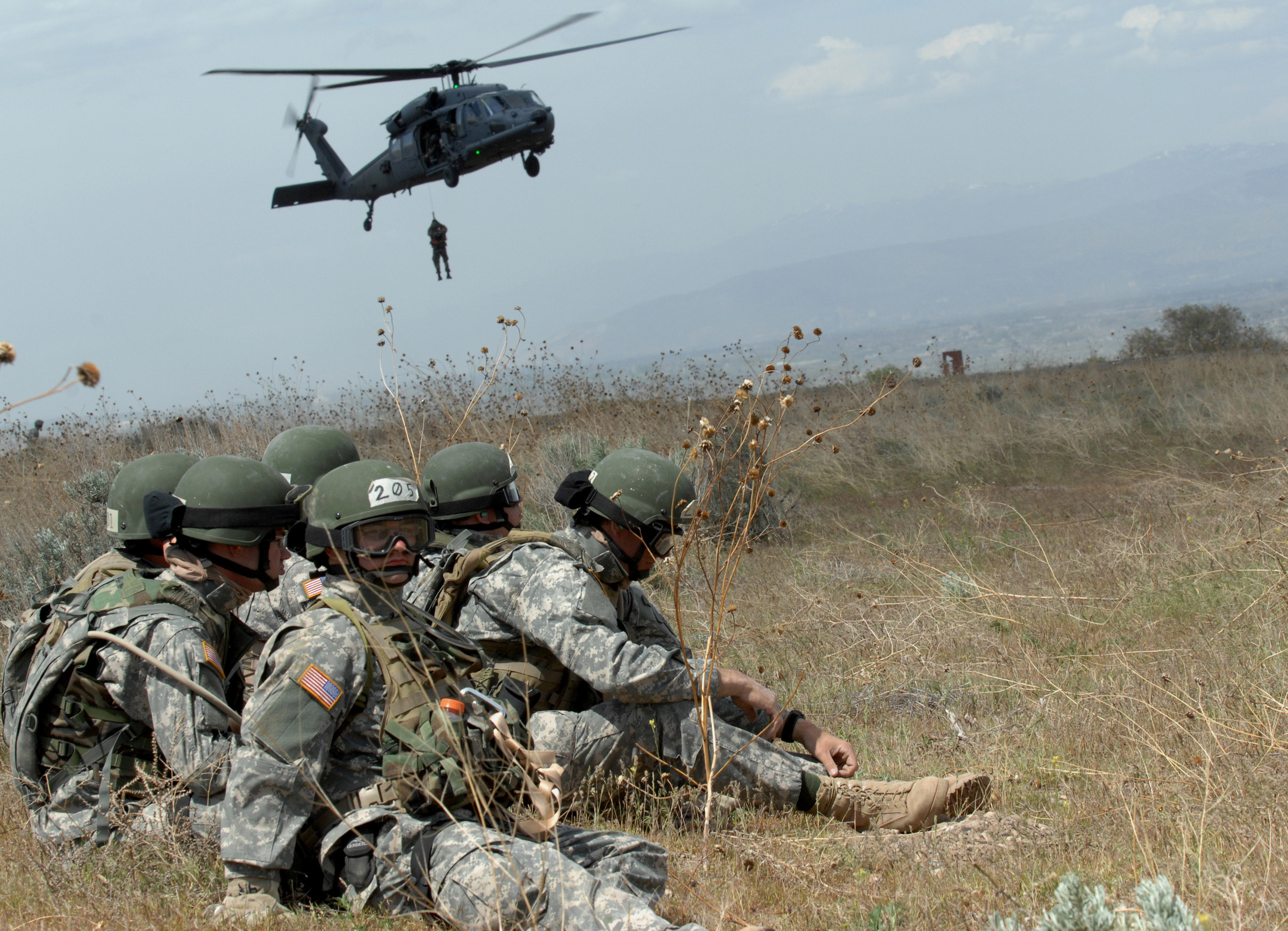 U.S. Army soldiers from the Utah National Guard, 19th Special Forces unit, wait to be hoisted aboard an Air Force HH-60 Pave Hawk helicopter over the Utah Test and Training Range during a combat search and rescue exercise in Sandy, Utah, on May 3, 2007. The exercise helps expand the expertise and integration among Utah's 211th Aviation Group AH-64 Apache Joint Rotary Wing, the 4th Fighter Squadron F-16 Fighting Falcon Striker assets and the Special Operations Forces in conducting extensive joint combat search and rescue operations.